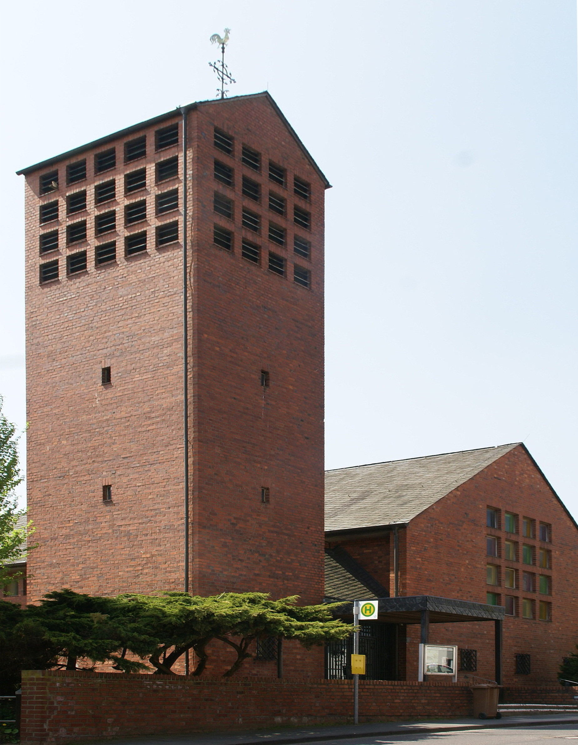 The catholic parish church St. Maria Hilf in Volmershoven-Heidgen